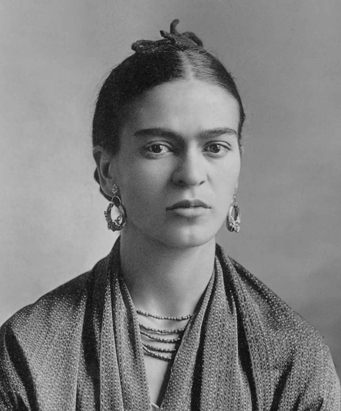 Frida Kahlo (gelatin silver print, 15.2 by 10.8 cm)